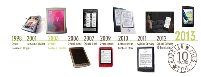 Chronologie Bookeen